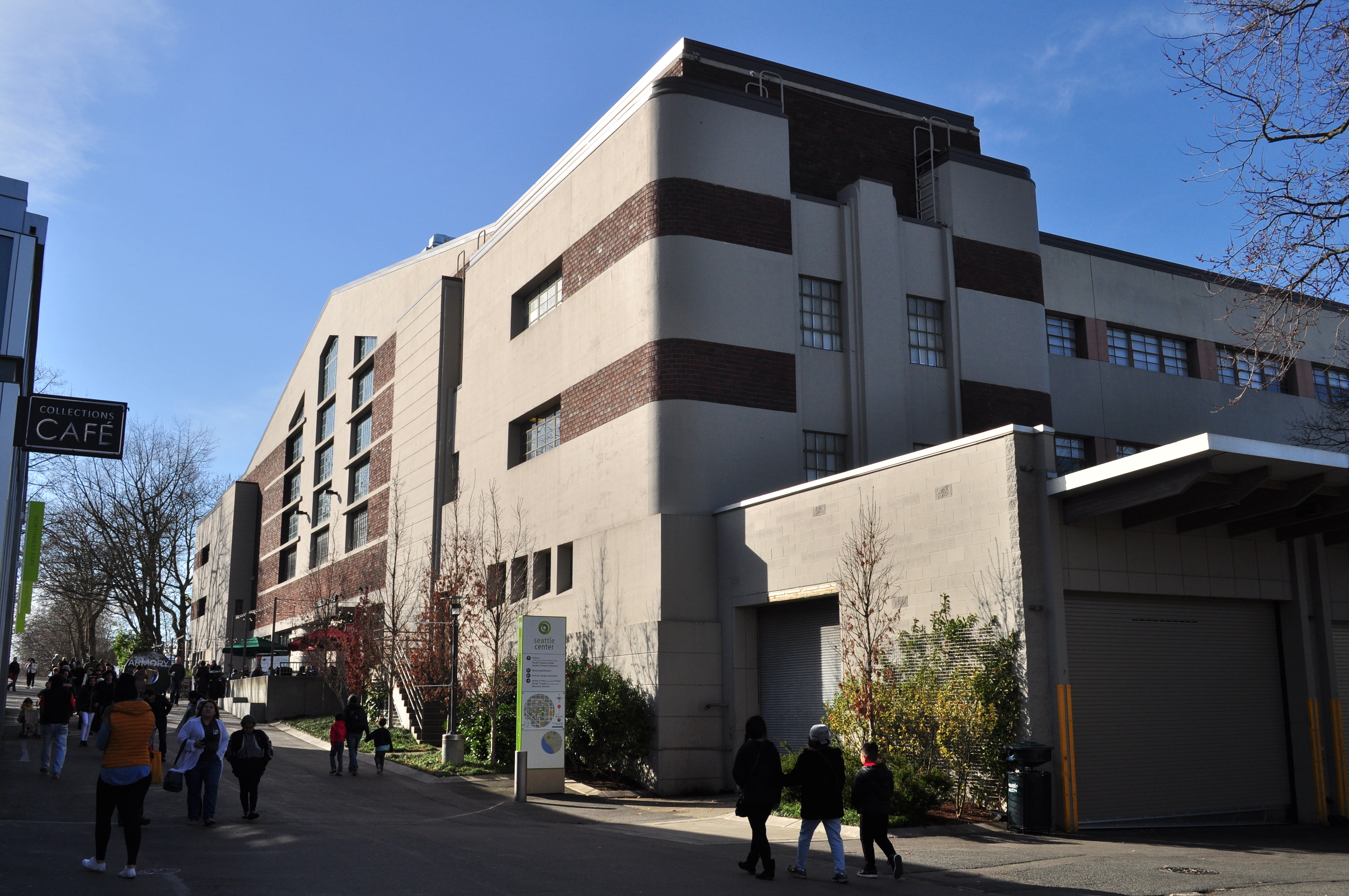 South side of Armory (formerly Center House), Seattle Center, Seattle, Washington, U.S., viewed from roughly east by southeast.